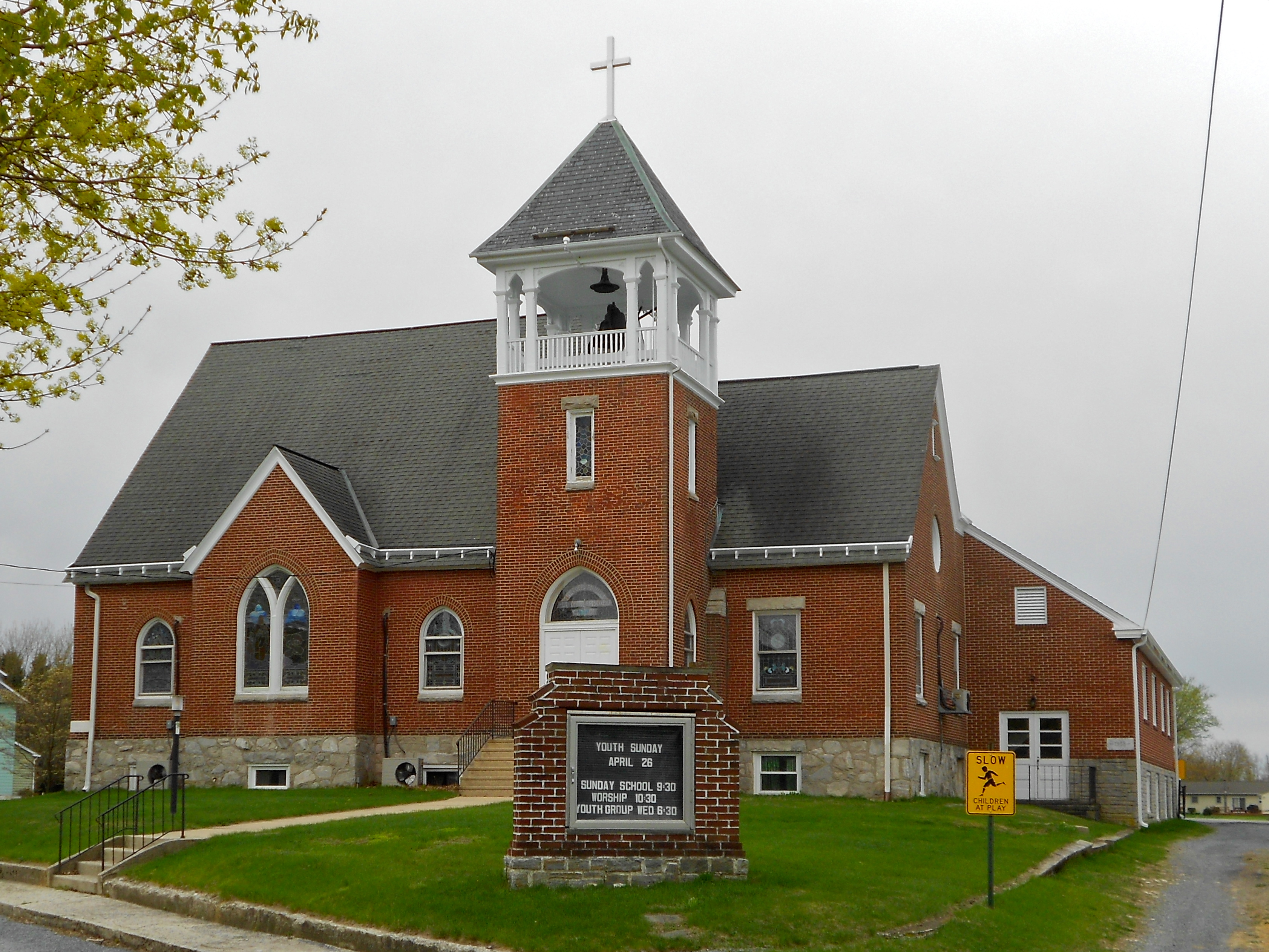 Methodist Episcopal Church in Cochraneville, Pennsylvania